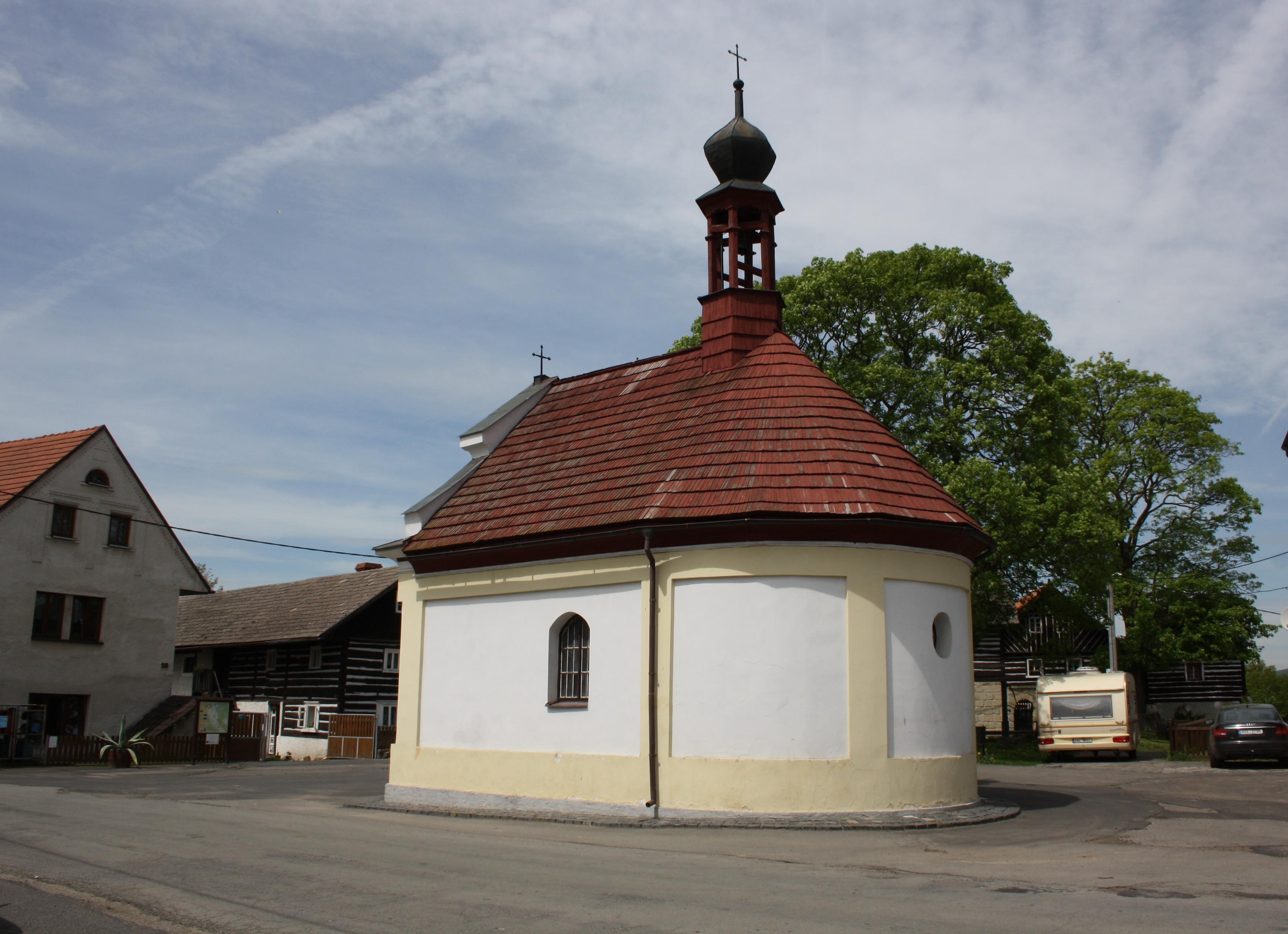 Žďár (Doksy), Česká Lípa District, Liberec Region, Czech Republic This photograph was taken with a DSLR from WMCZ's Camera grant. Project: Fotíme Česko